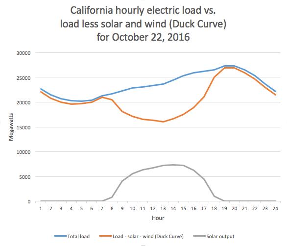 Graph of California hourly electric load vs. load less solar and wind (the Duck curve) along with solar power output. Data is from and is for October 22, 2016, a day when the wind output was low and steady throughout the day.